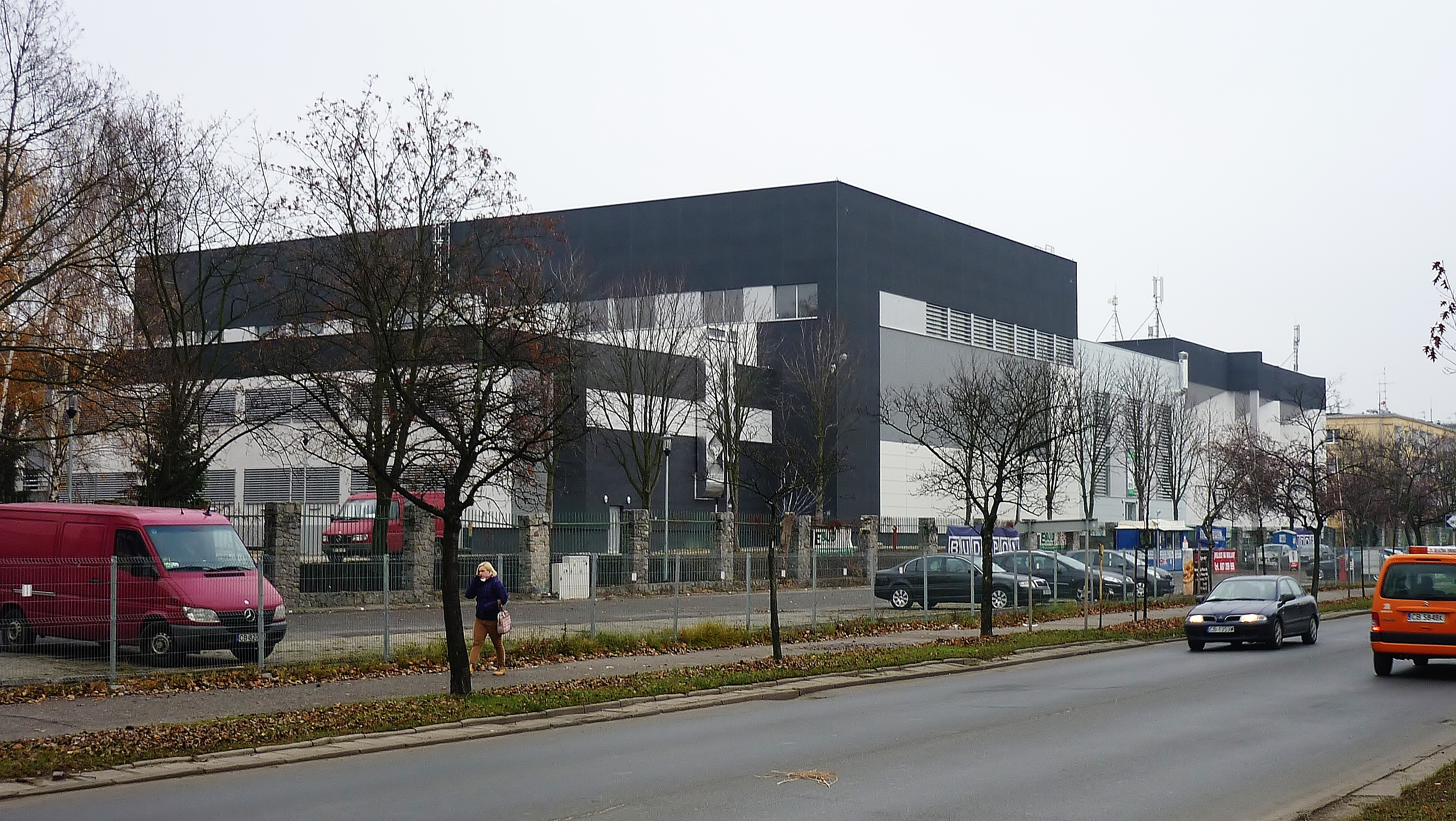 Casimir the Great University Sport's Centre, Bydgoszcz, Kuyavian-Pomeranian Voivodeship, Poland